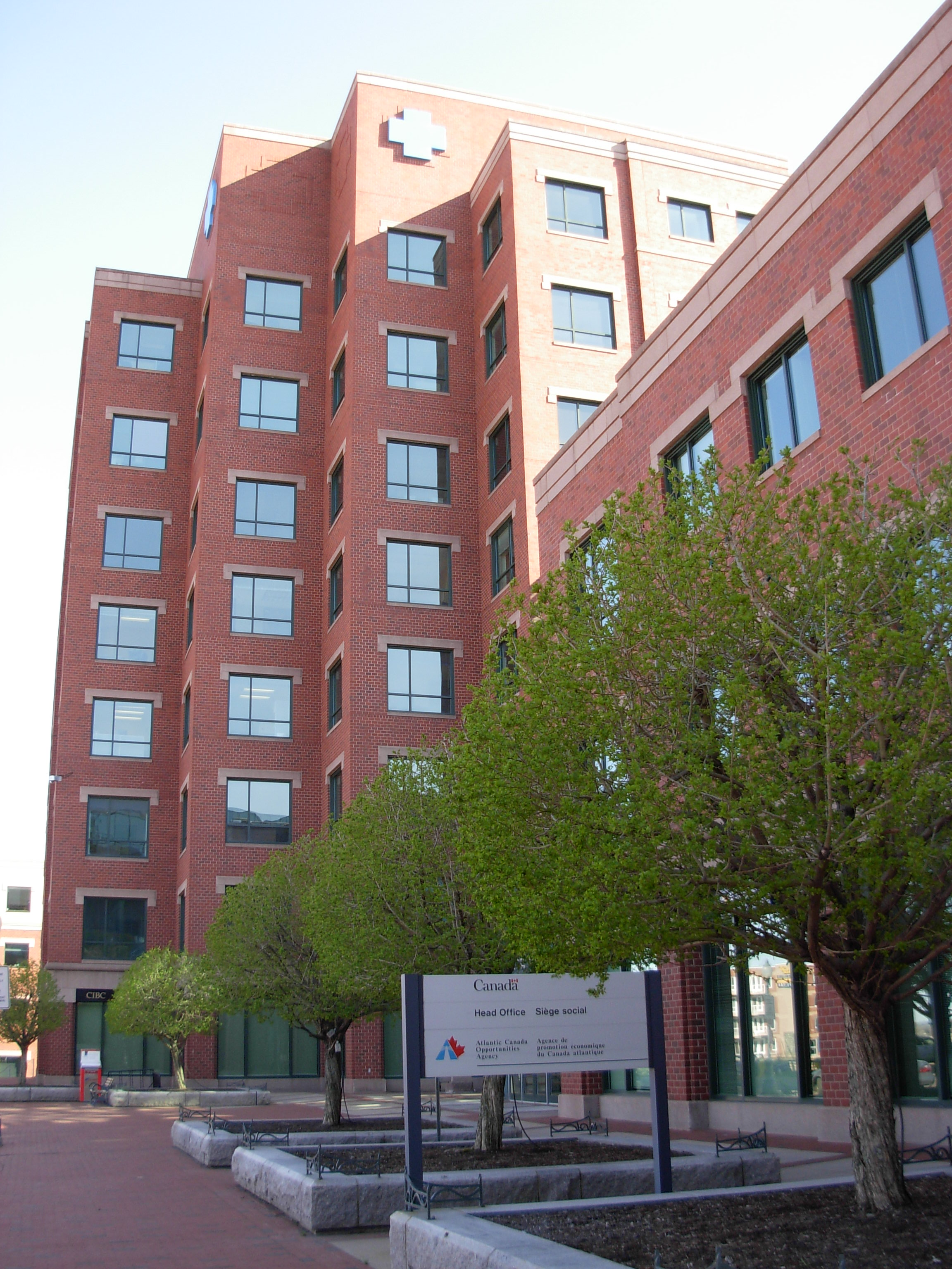 I Stu_pendousmat took this picture, May 2007